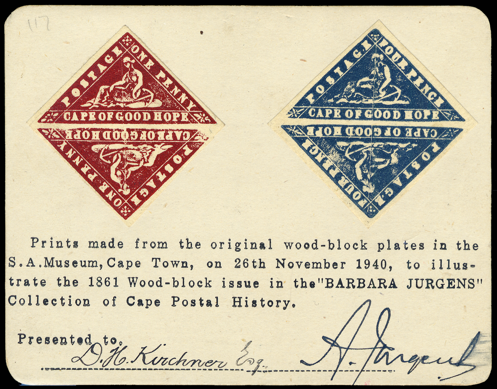 Cape of Good Hope Wood Block